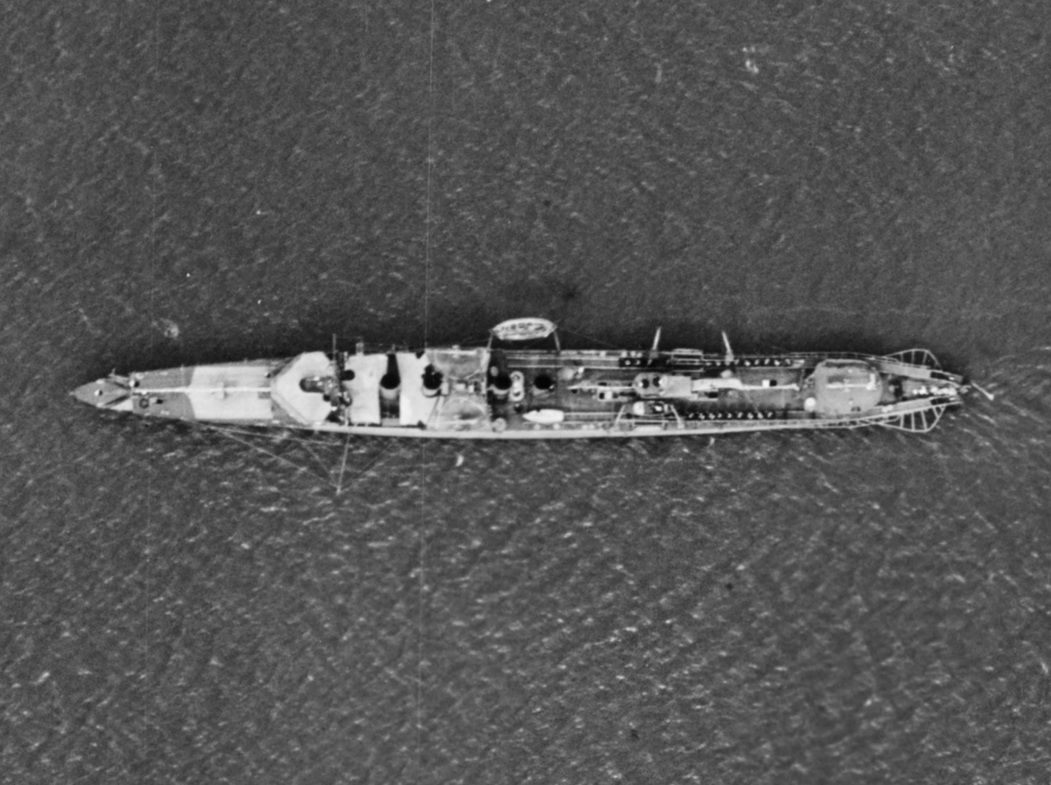 Vertical aerial view of the U.S. Navy minelayer USS Maury (DM-5), taken on 2 May 1927. Note the arrangement of the mine-laying tracks .